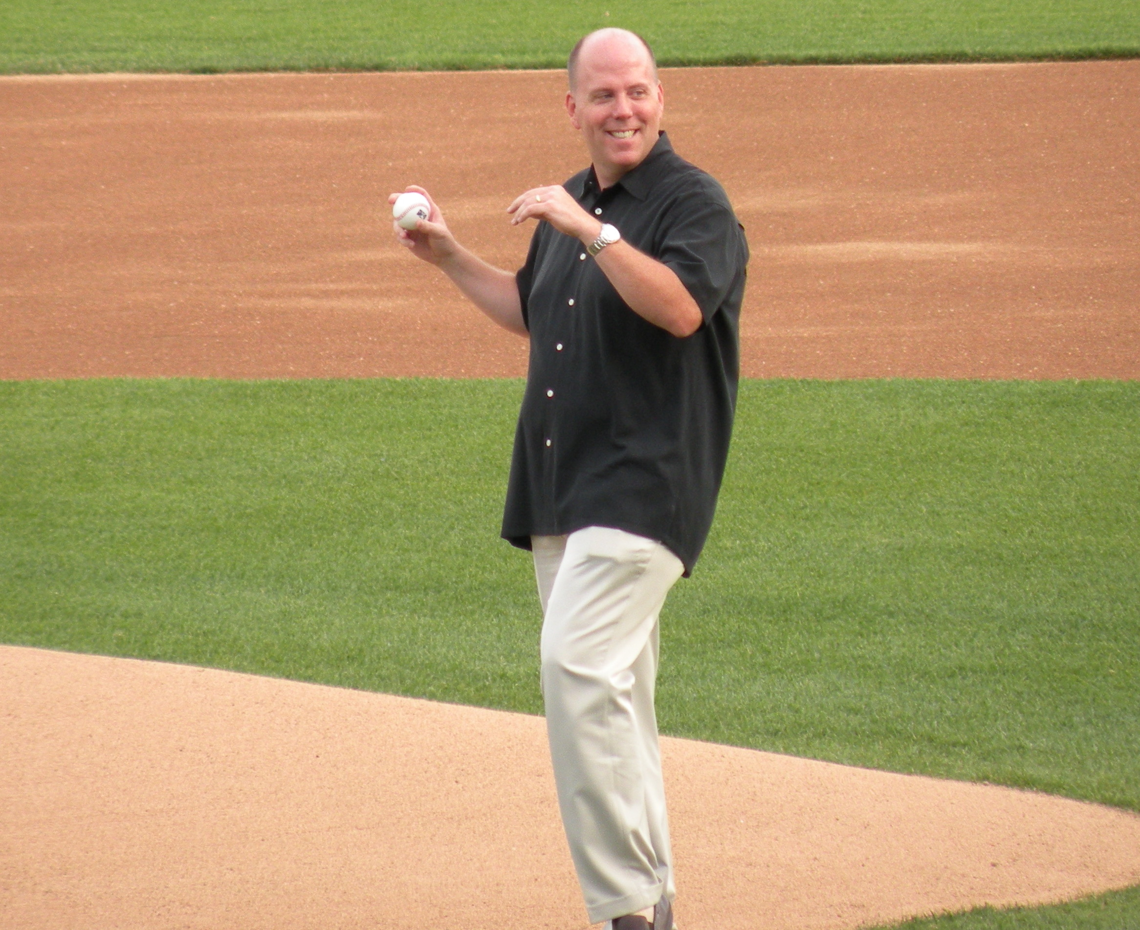 Ceremonial first pitch before Eastern League All Star Game